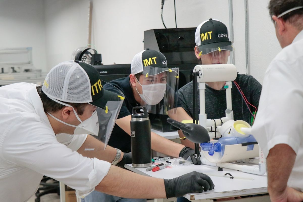 PEF respirador